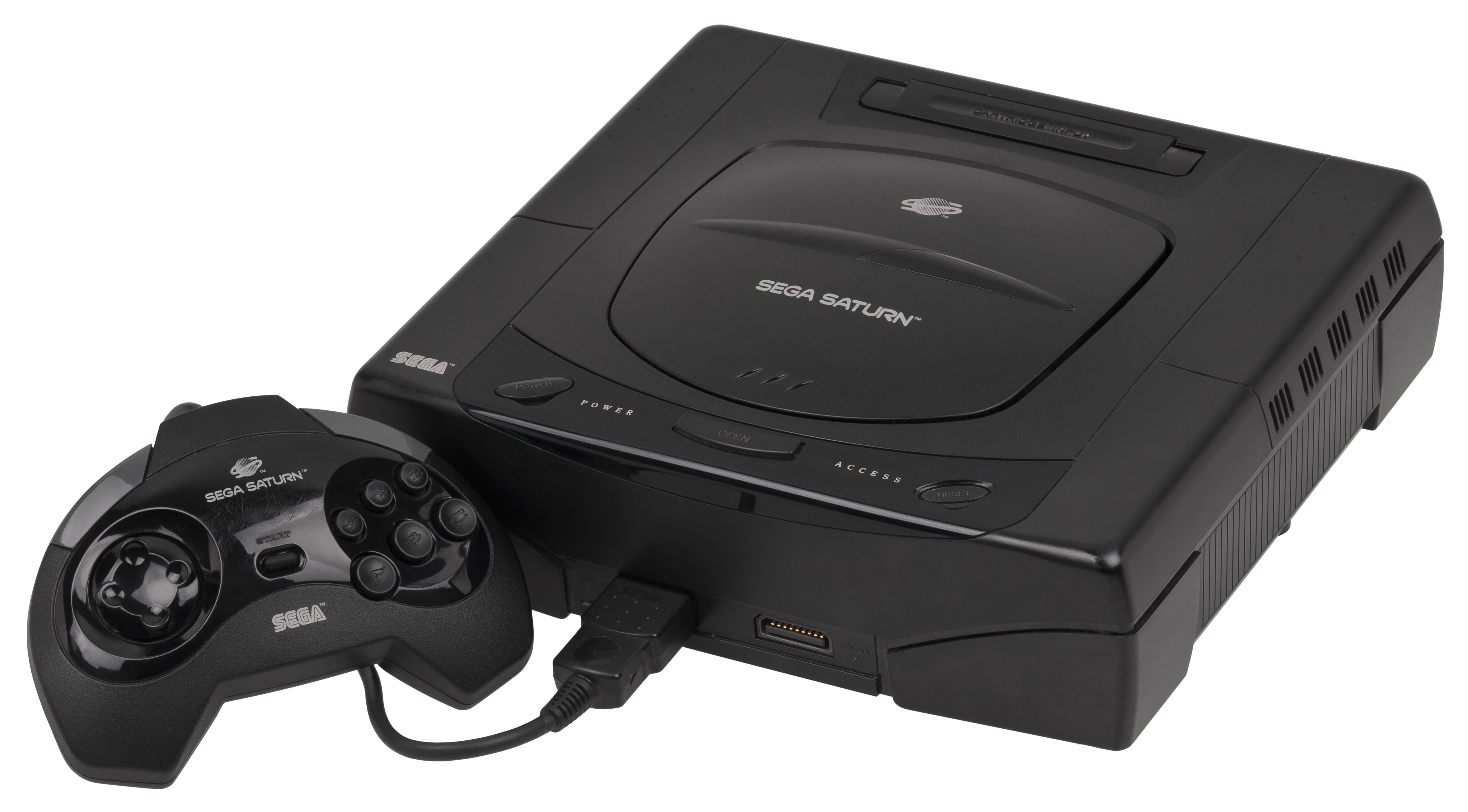 The first generation of the US Sega Saturn video game console shown with the first generation Sega Saturn controller.